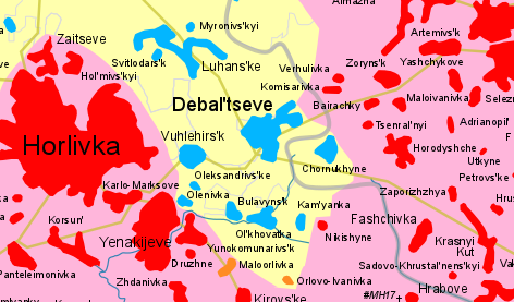 Map of Debaltseve during the war in Donbass.